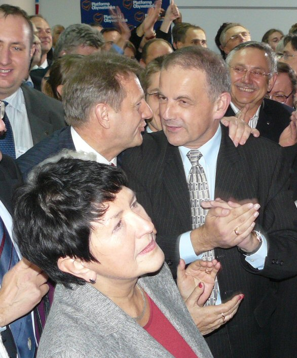 Polish parliamentary election, 2007 - announcement of election's results in Civic Platforms' base in Poznań, 2007-10-21 (foreground: Jadwiga Rotnicka, backgronund: Dariusz Lipiński /silver necktie/)